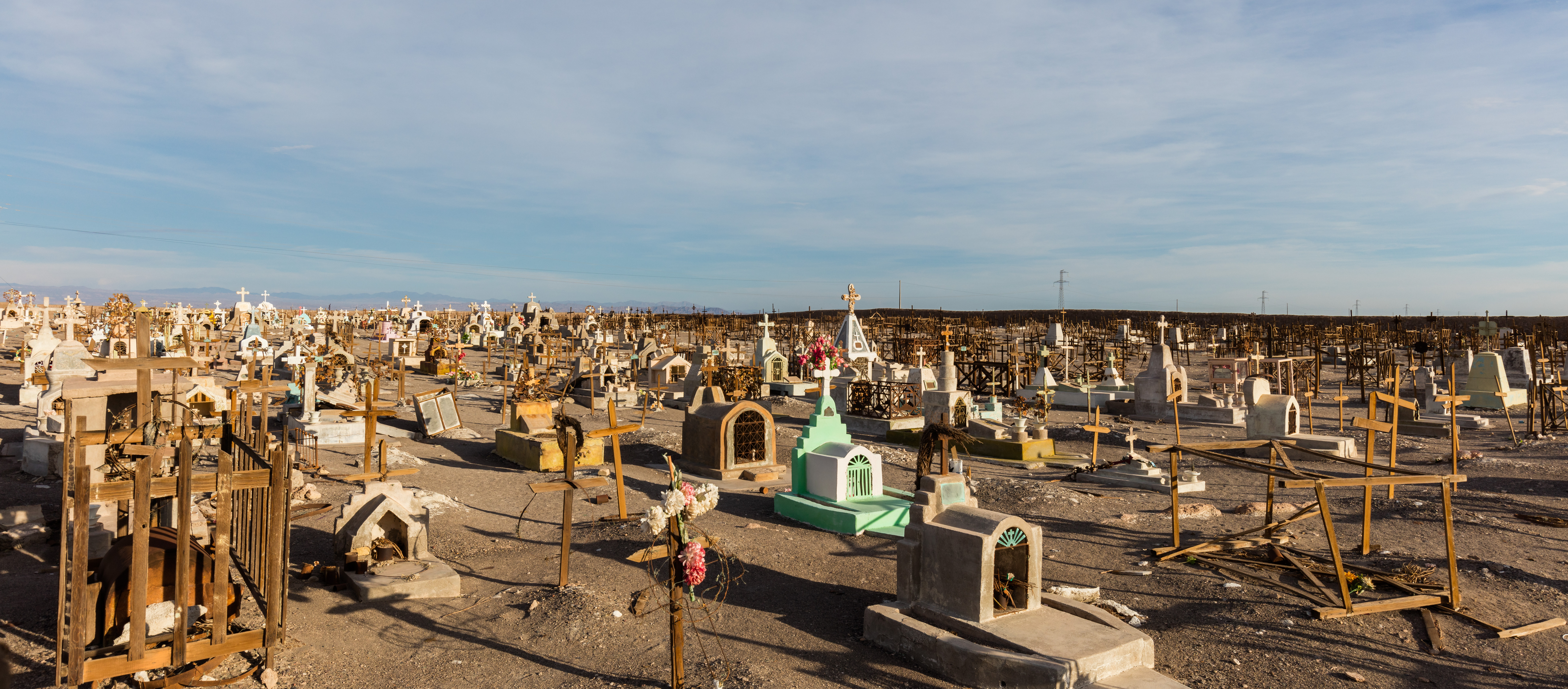 Cemetery of the salt mining Rica Aventura, María Elena, Chile